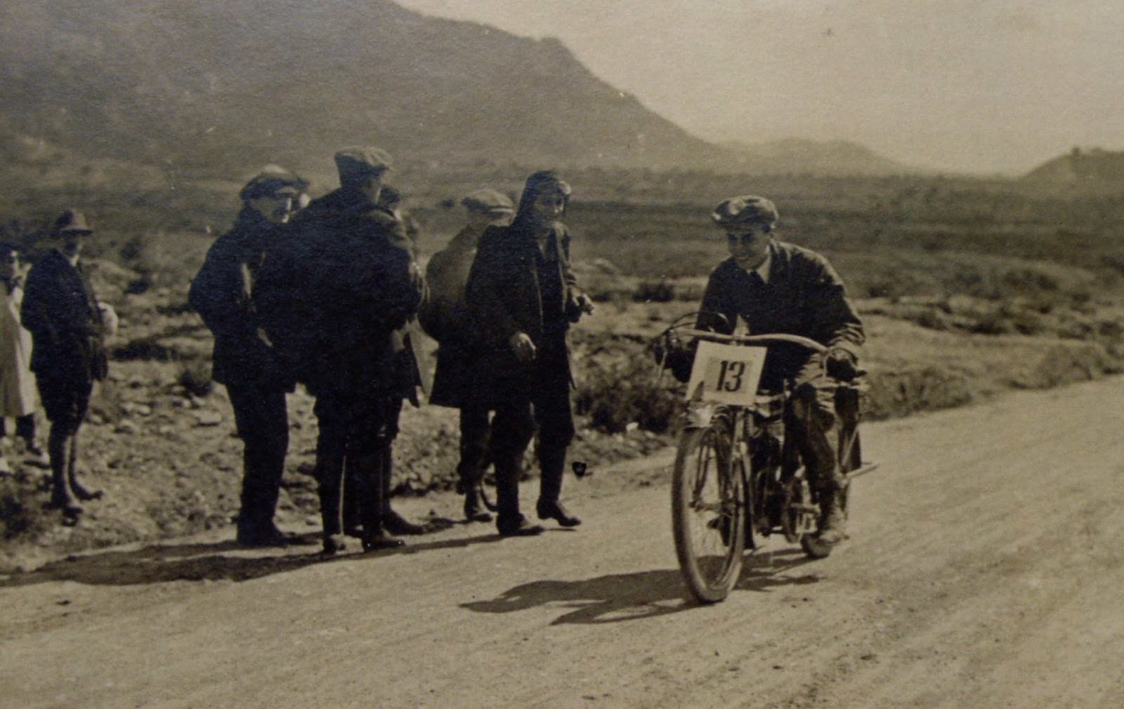 R. Balaguer at the Hillclimbing race to El Bruc ("Pujada als Brucs"), 1916. He was 2nd in 300cc.